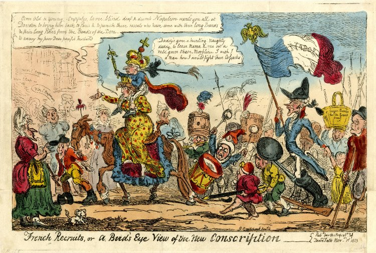 French Recruits, or a bird's eye view of the new Conscription.